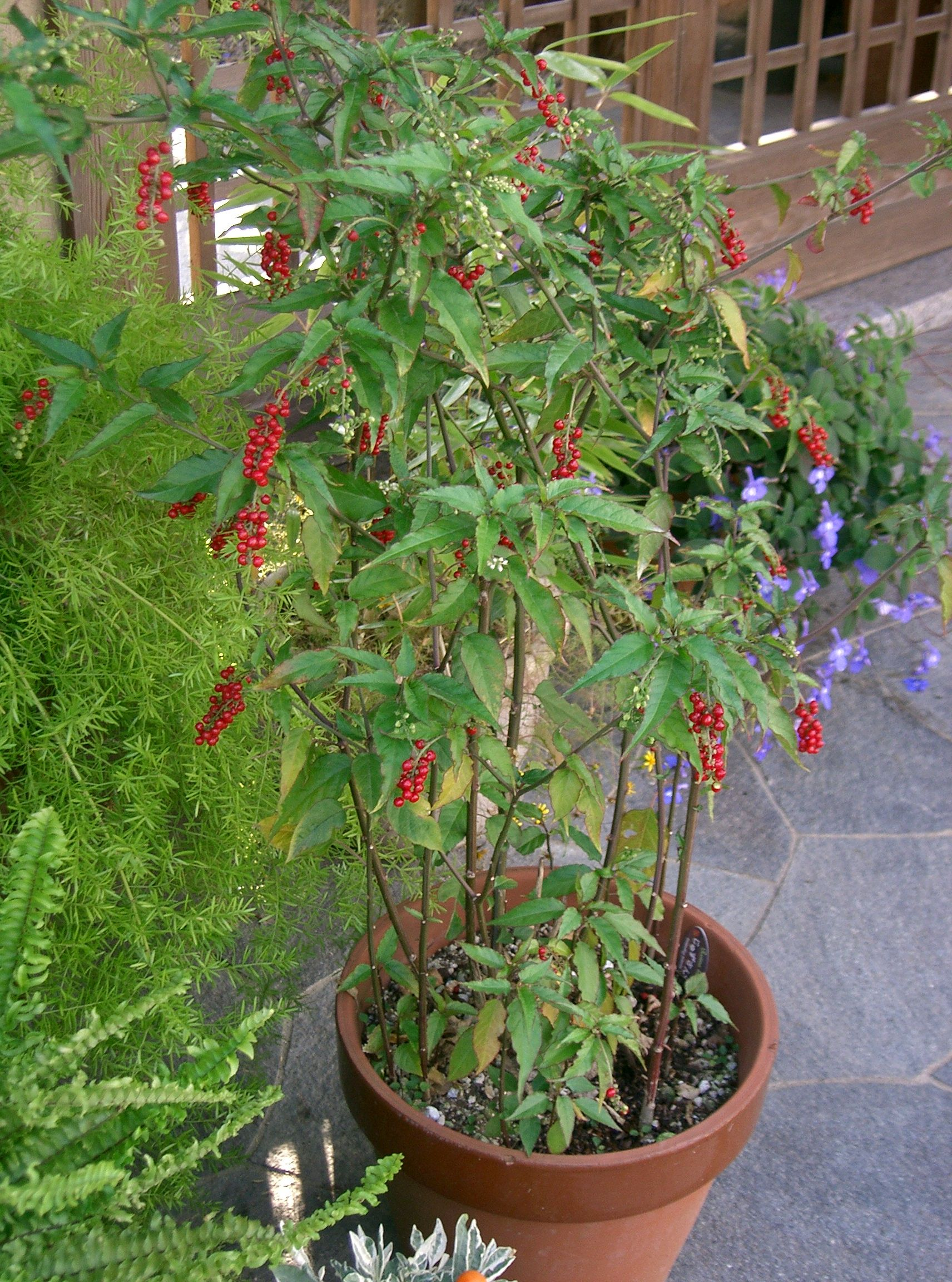 Scientific name: Rivina humilis. Place:Osaka-fu Japan